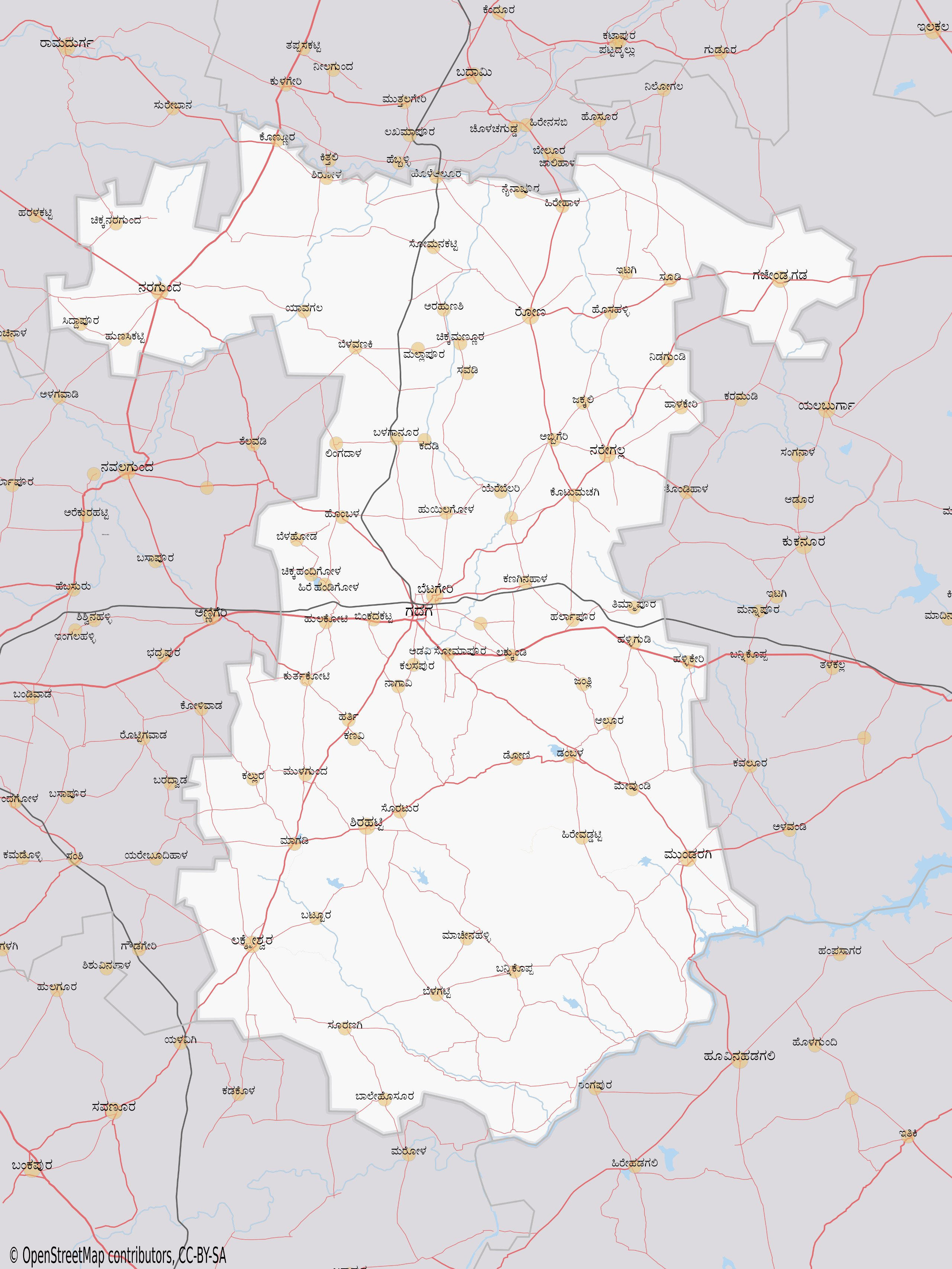 Kannada language district map with cities and towns, many villages, and connecting road maps. Includes district boundaries.